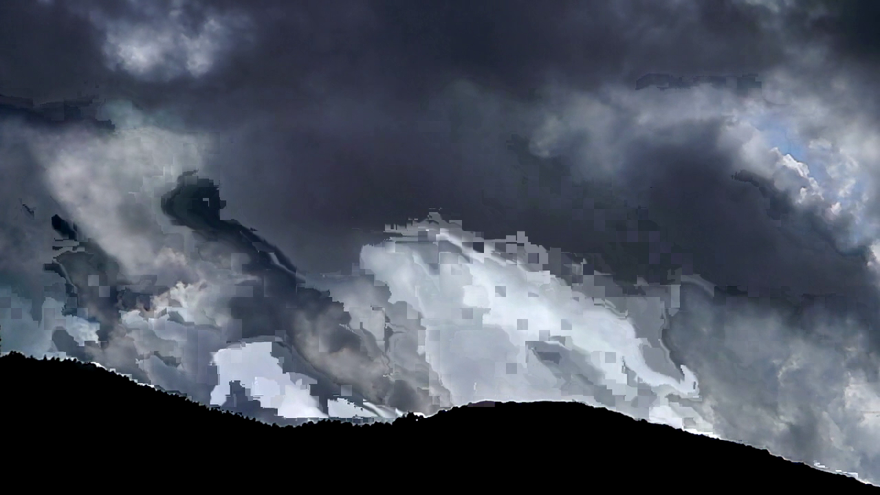 Macroblocking error caused in transmission error. Simulated by removing a random amount of data of a video file I captured with my camera